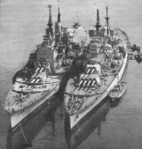 HMS Vanguard (23) (left) and HMS Howe (32) in reserve in early 1956 at the Imperieuse moorings at Devonport. Supposedly a crop of a larger picture which shows several other ships.